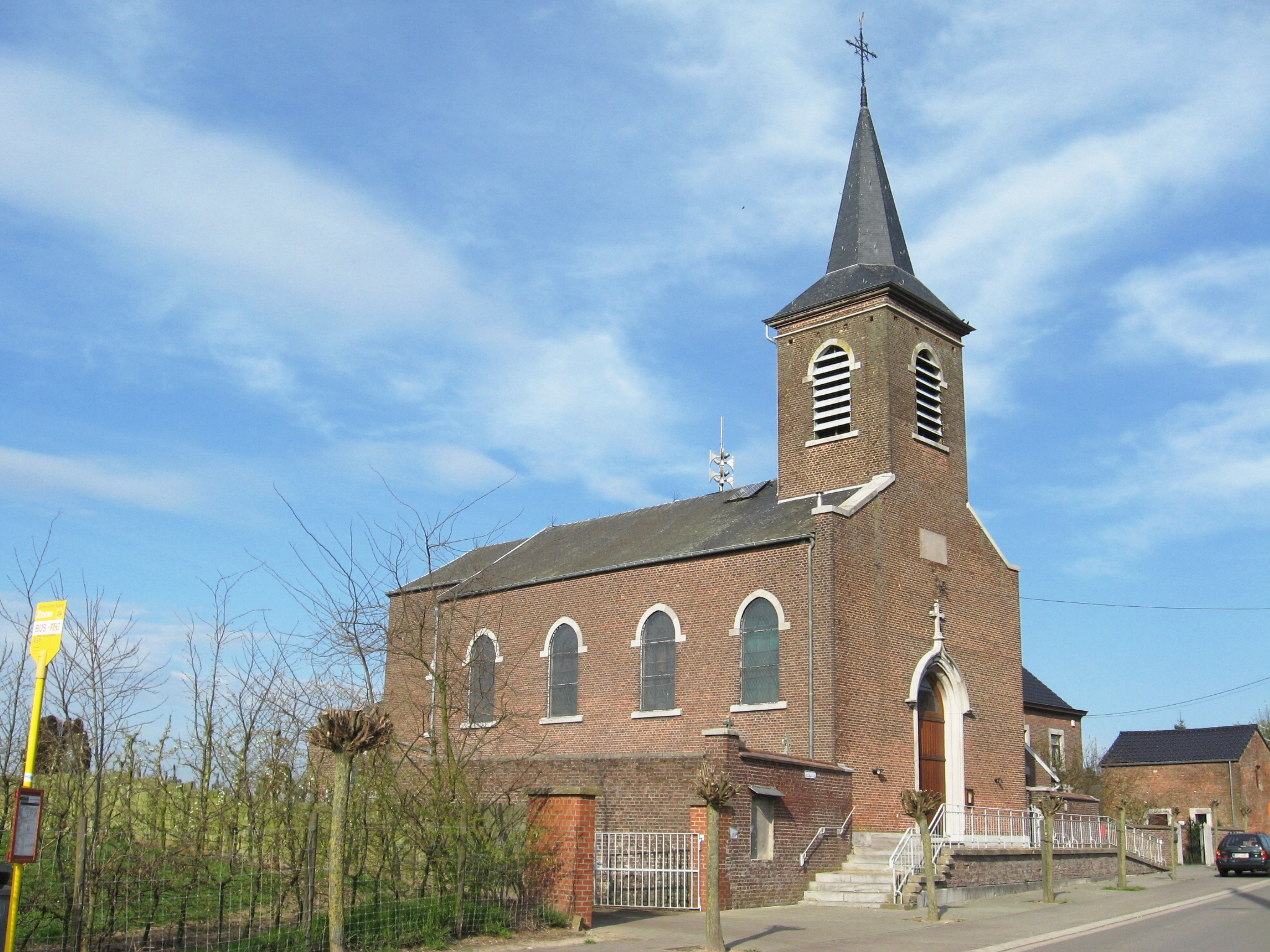 Church of Saint Vincent in Bovenistier, Waremme, Liège, Belgium